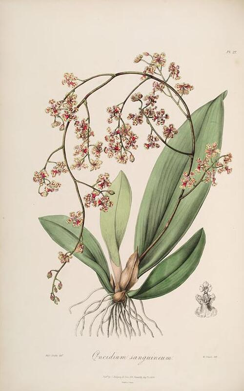 Trichocentrum carthagenense